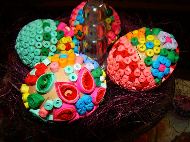 Easter exhibition in Nowotaniec, April 2011